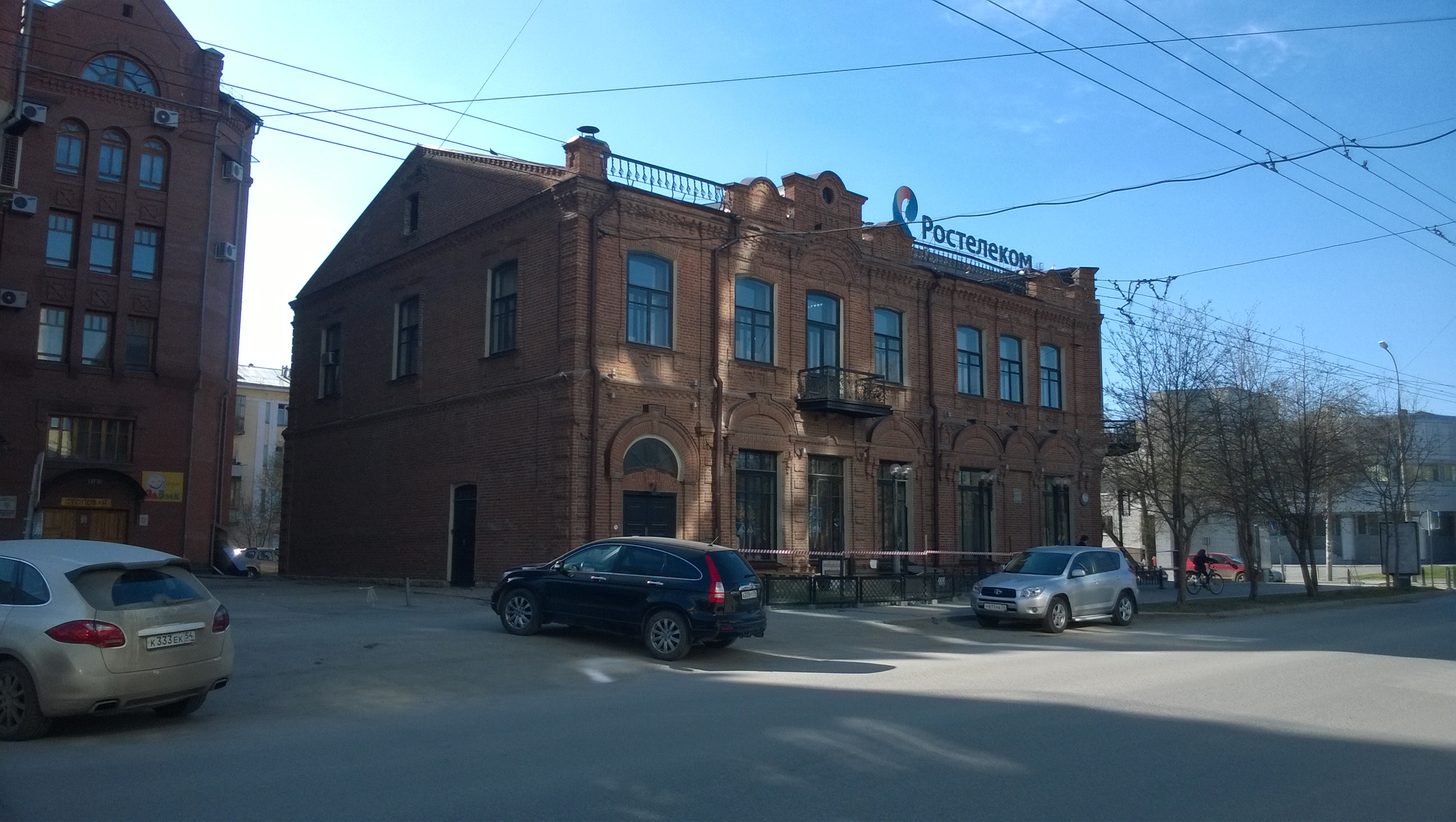 Kryukov House in Novosibirsk, Russia. The building is located in Sovetskaya Street, 25. It was built in 1908 on the initiative of the merchant Z. G. Kryukov.